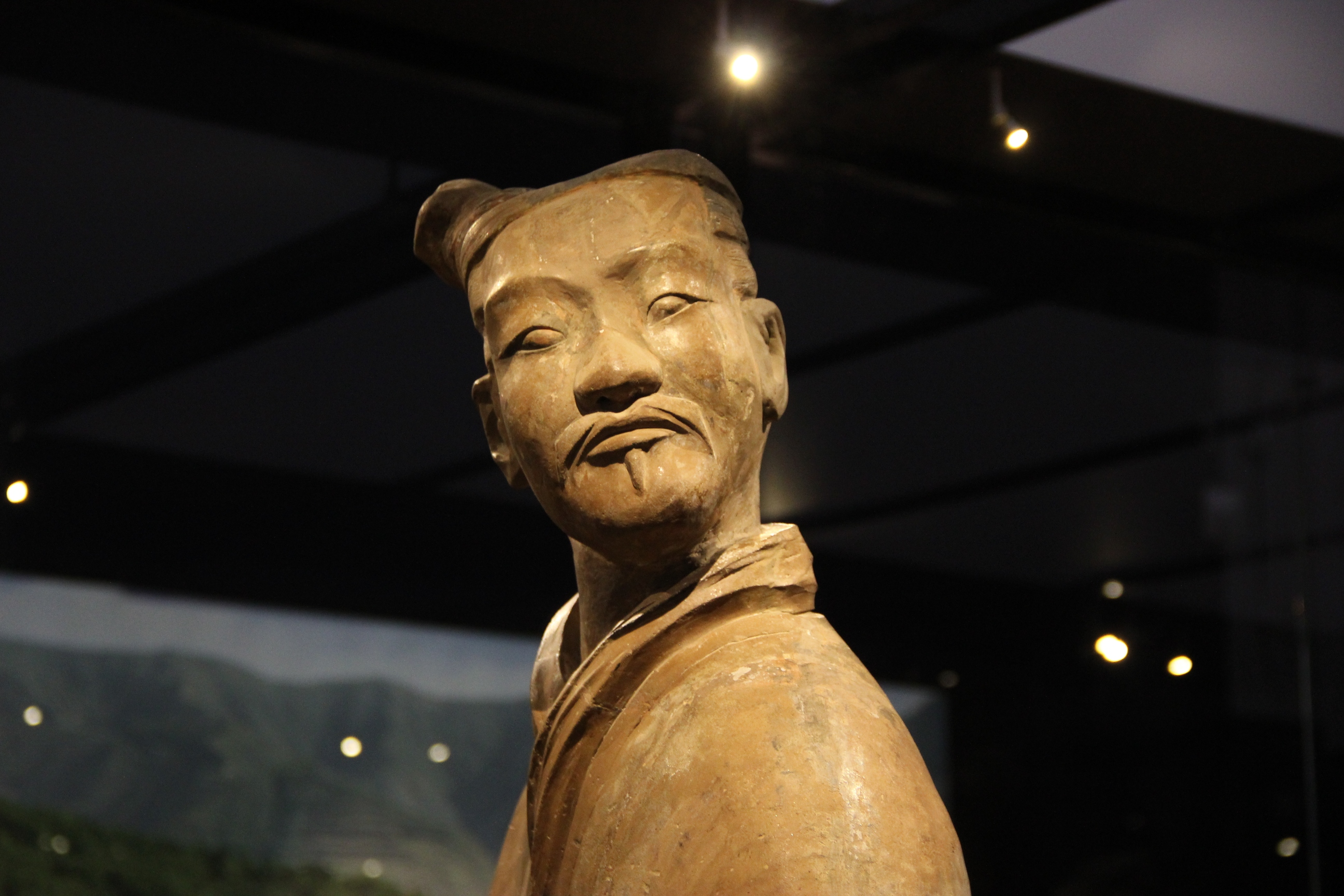 Head of a Terracotta Soldier, Photo taken August 2013 in Vapriikki Museum Exhibition, Tampere, Finland